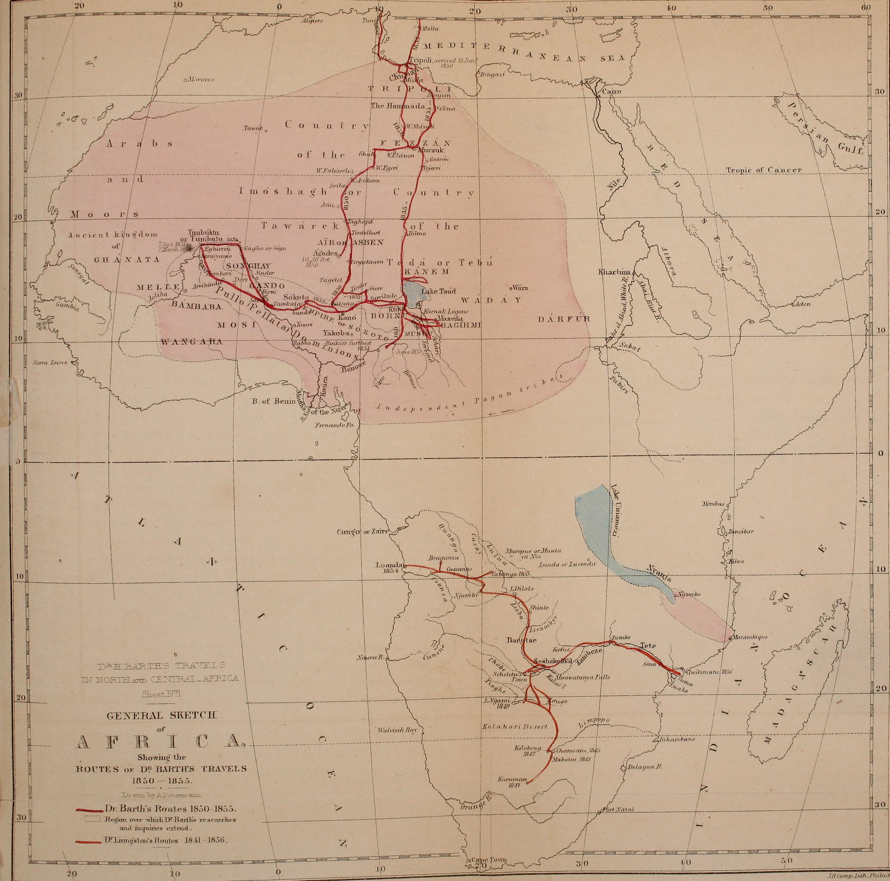 Title: Travels and discoveries in North and Central Africa. From the journal of an expedition undertaken under the auspices of H.B.M.'s government, in the years 1849-1855 Year: 1859 (1850s) Authors: Barth, Heinrich, 1821-1865 Subjects: Publisher: Philadelphia, J.W. Bradley Text Appearing Before Image: ' Text Appearing After Image: ADVERTISEMENT OF THE PUBLISHER. The extraordinary success of the cheap and popular edition ofDr. Livingstons Travels in South Africa, has suggested to the pub-lisher the propriety of issuing a similar edition of Dr. Barths Travelsin North Central Africa, as a suitable companion and supplement tothe former work. The English edition of Dr. Barths Travels fills five octavo volumes,and the cost is between twenty-five and thirty dollars. The authorsreasons for issuing the work in this voluminous and expensive formare readily seen. His favorite object is the advancement of discoveryin Africa; and wishing to render his work as useful as possible toall future travellers in the regions which he visited, he appears tohave published the greater part of his entire journal for a period ofmore than five years. In it are noticed the incidents of travel fromday to day and from week to week, with rather minute descriptionsof monuments, mountains, rivers, deserts, rocks, and trees seen onthe route, as